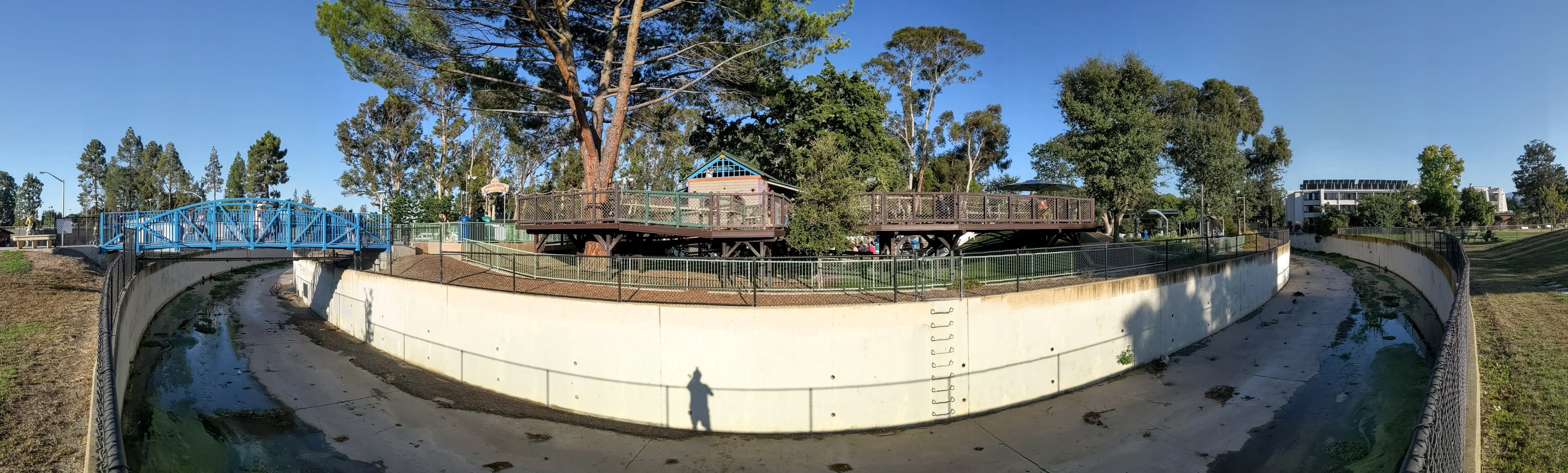 Adobe Creek at the Magic Bridge Playground in Mitchell Park, Palo Alto